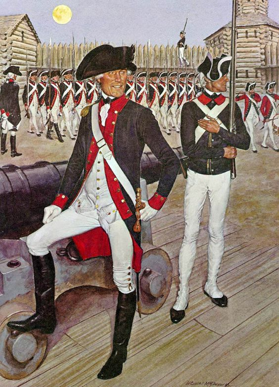 First American Regiment 1786.The whole U.S. Army in the fall of 1784 was one infantry regiment; consisting of eight infantry and two artillery companies. Four states Connecticut, New York, New Jersey, and Pennsylvania -- were called upon to furnish the troops, but only two, New Jersey and Pennsylvania, responded. The missions of the Army were to occupy the forts along the frontier and protect the U.S. commissioners making treaties with the Indians. The uniform, adopted by the Secretary of War and approved by General Washington in General Orders in December 1782, consisted of a blue coat with red facing, white lining and buttons for the infantry, and red lining and yellow buttons for the artillery. In the left foreground is a captain of artillery, an epaulette on his right shoulder, wearing the red lined coat with yellow buttons. In the right foreground is an infantry private in the fatigue vest. made of blue cloth with a red collar used for daily duties to spare the uniform coats. Sometimes the fatigue vests were made by company tail­ors (as in the one shown); sometimes they were merely last year's coats cut down, in which case they might retain the red cuffs. In the background is a field grade officer, distinguished by his silver epaulettes, inspecting a detachment of infantrymen in blue coats faced with red and lined with white. The infantrymen are headed by their musicians in reversed colors.-- red coats with blue facings. The Army of 1784 was not always able to furnish uniforms even for the small number of troops in the service. The New Jersey detachment in 1784, for example, was issued some blue coats with white facings, the old uniform of the New England line. The detachment's captain was forced to stop the men's rum ration in order to use the money to buy red cloth so that the company tailor could make all the coats uniform.